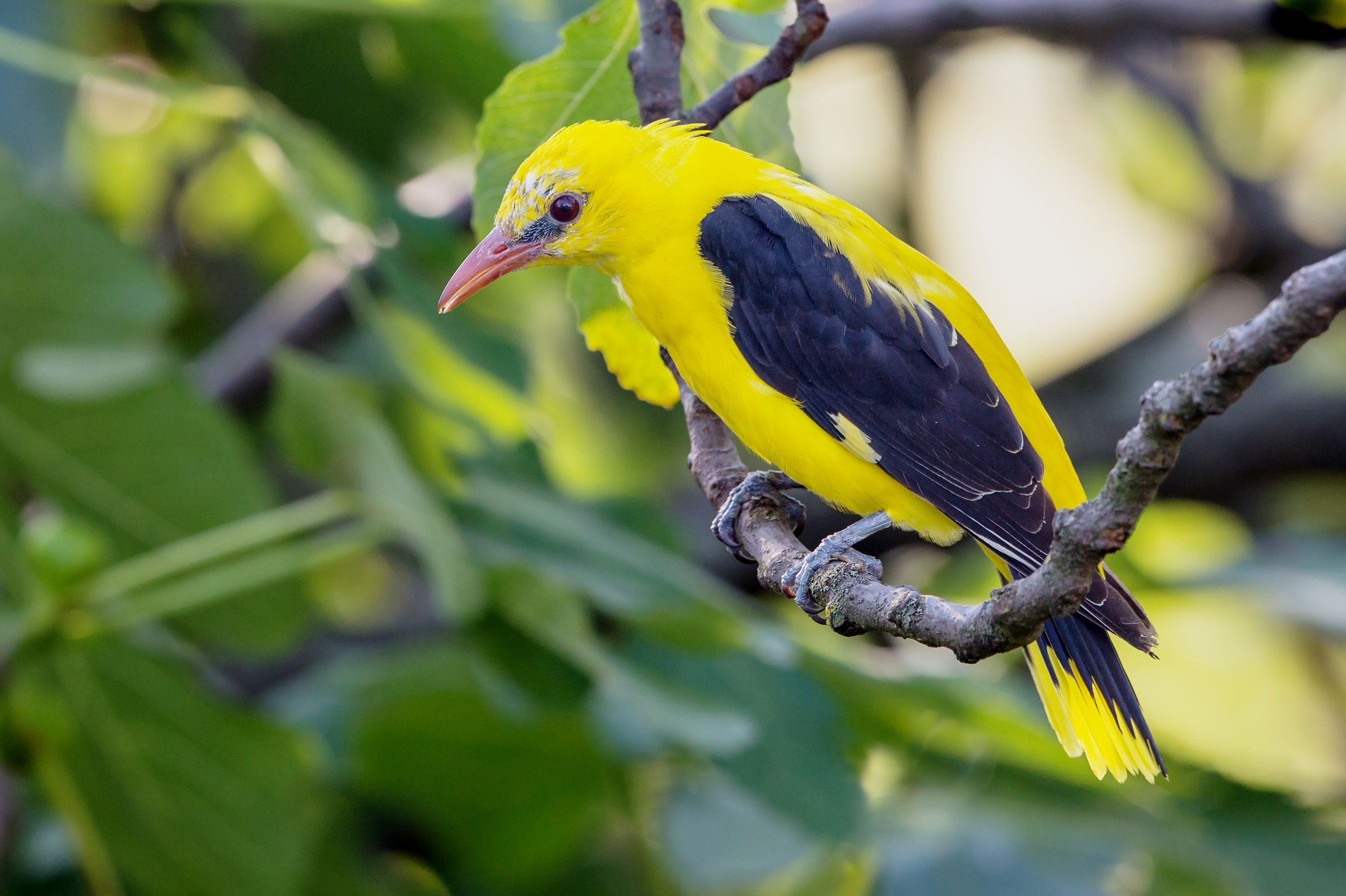 Eurasian Golden Oriole